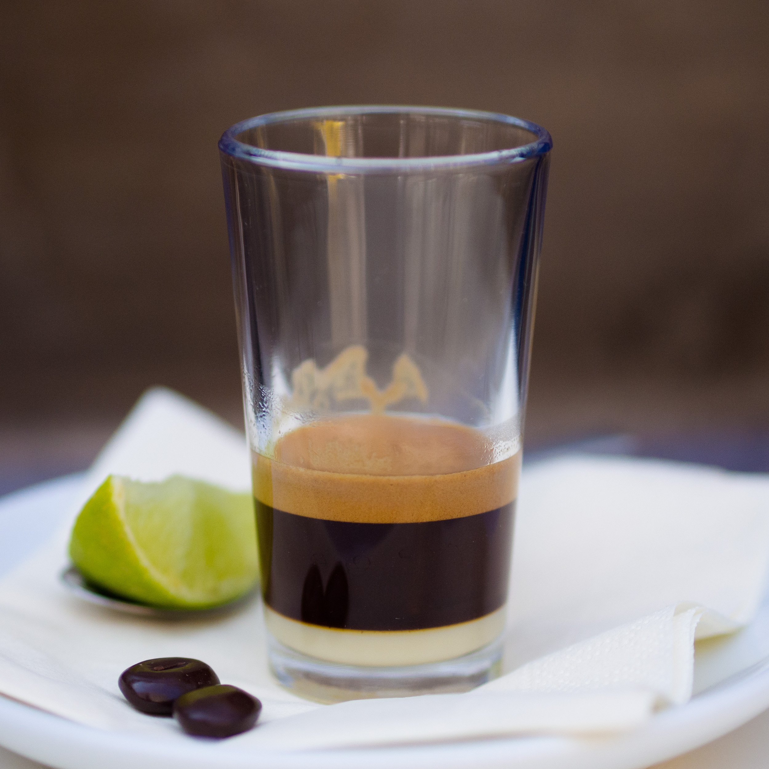 A "Café Guadalajarense" as it's called at Koffiebranderij Boon in The Hague, Netherlands. This drink was developed together with one of their customers who had drank something similar in Guadalajara, Mexico. It is made by pouring a thick ristretto on top of a layer of sweetened, condensed milk. It is served with a slice of lime. After mixing in the lime juice, the drink curdles a bit but that is part of the sensation. In the foreground lie two small pieces of chocolate..